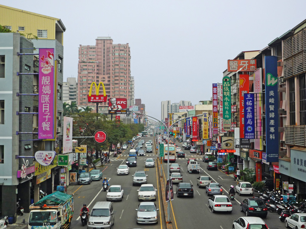 Intersection of Dungmen Road and Chongsyue Road, East District, Tainan, looking southeast.